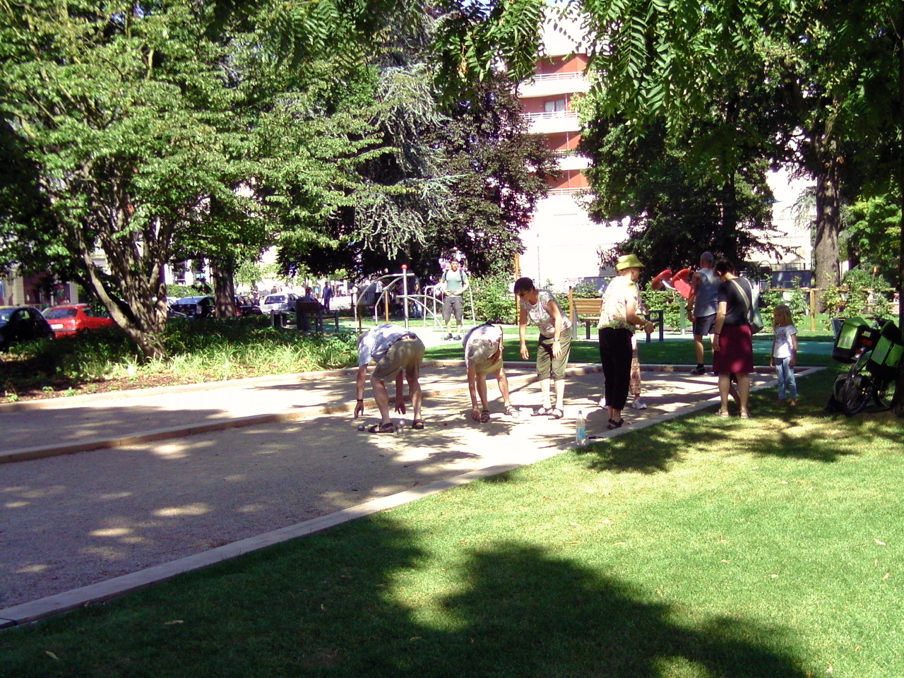 Distrikt Bergheim, part of the town Heidelberg